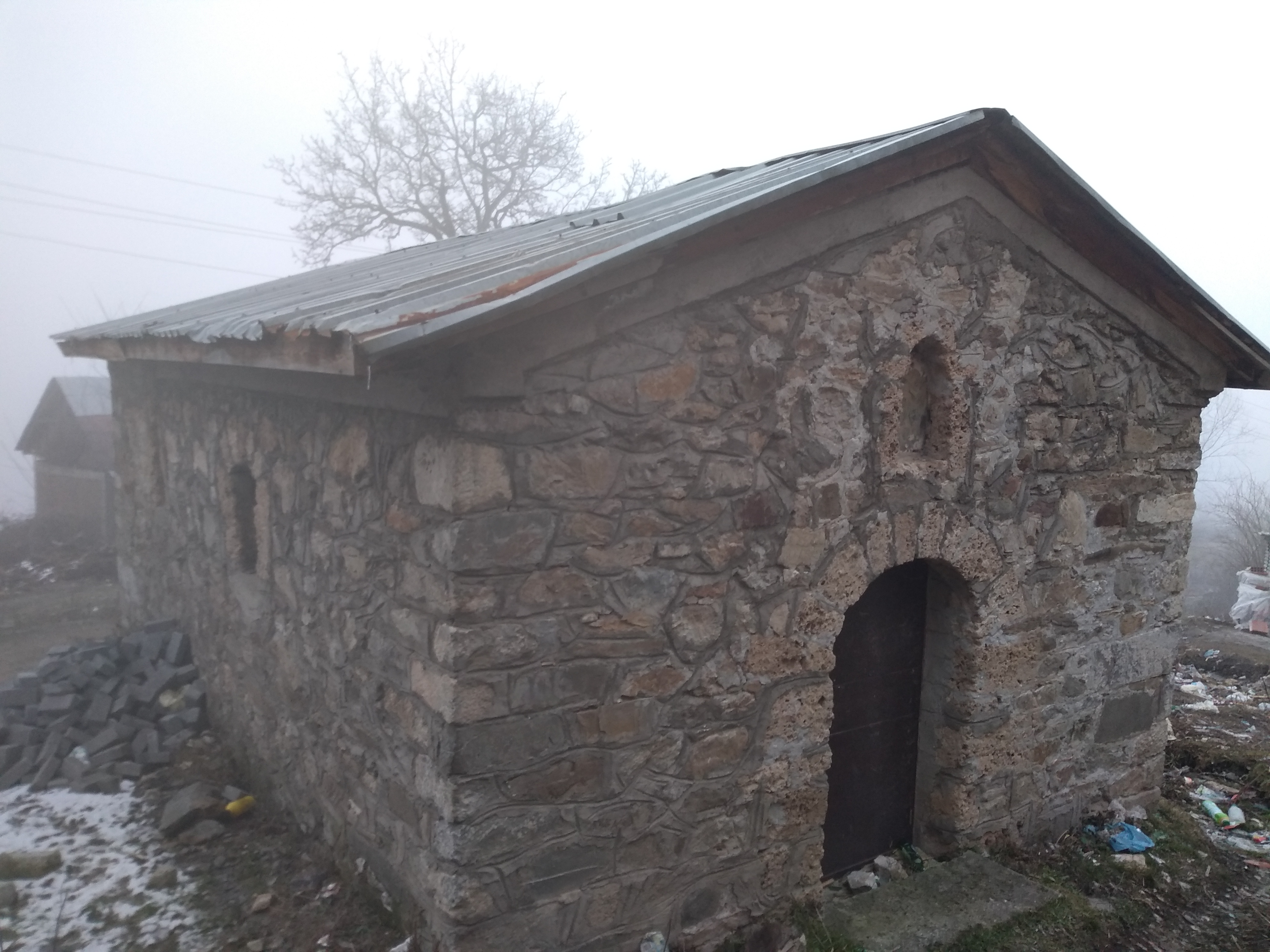 The church of St. Nicholas in the village of Gorno Kosovrasti, near Debar, Macedonia